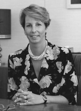 Sabine Bergmann-Pohl in 1990.